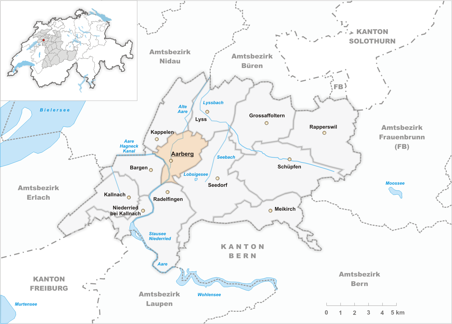 Municipality Aarberg